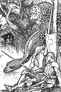 H.J. Ford, "Arthur and the Questing Beast". From , .